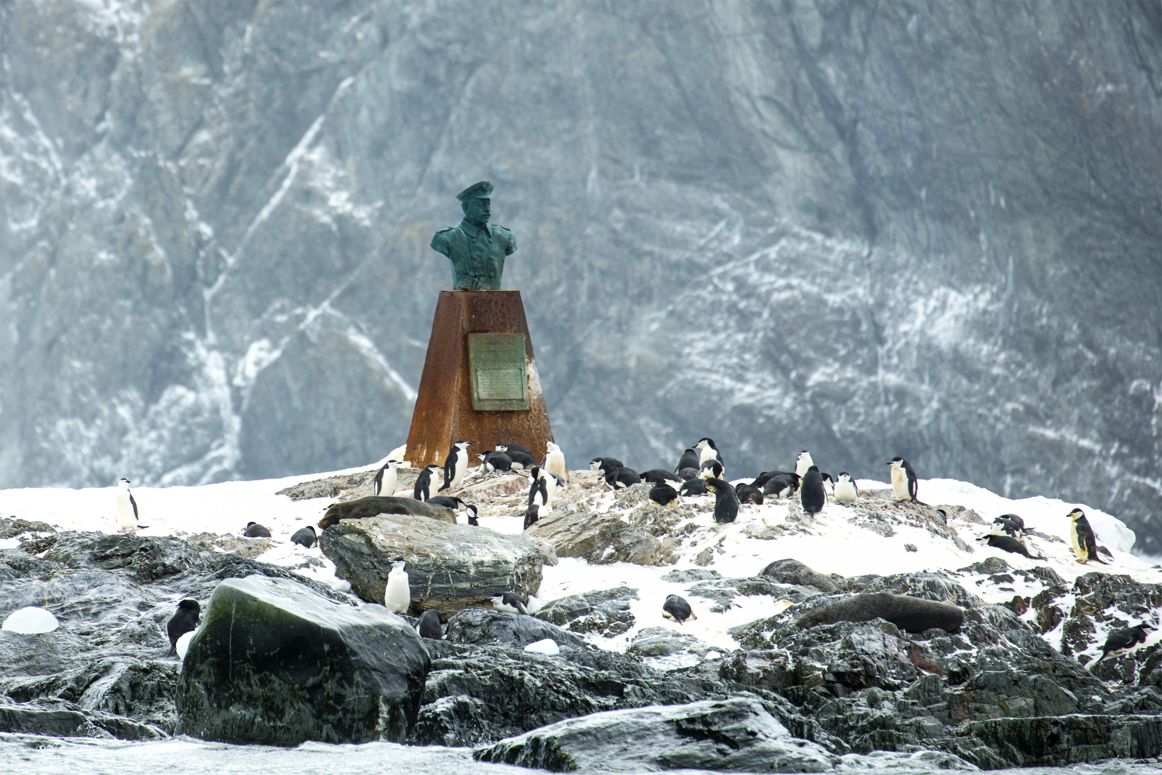 Bust of Captain Luis Pardo Villalón, Point Wild, Elephant Island, South Shetland Islands